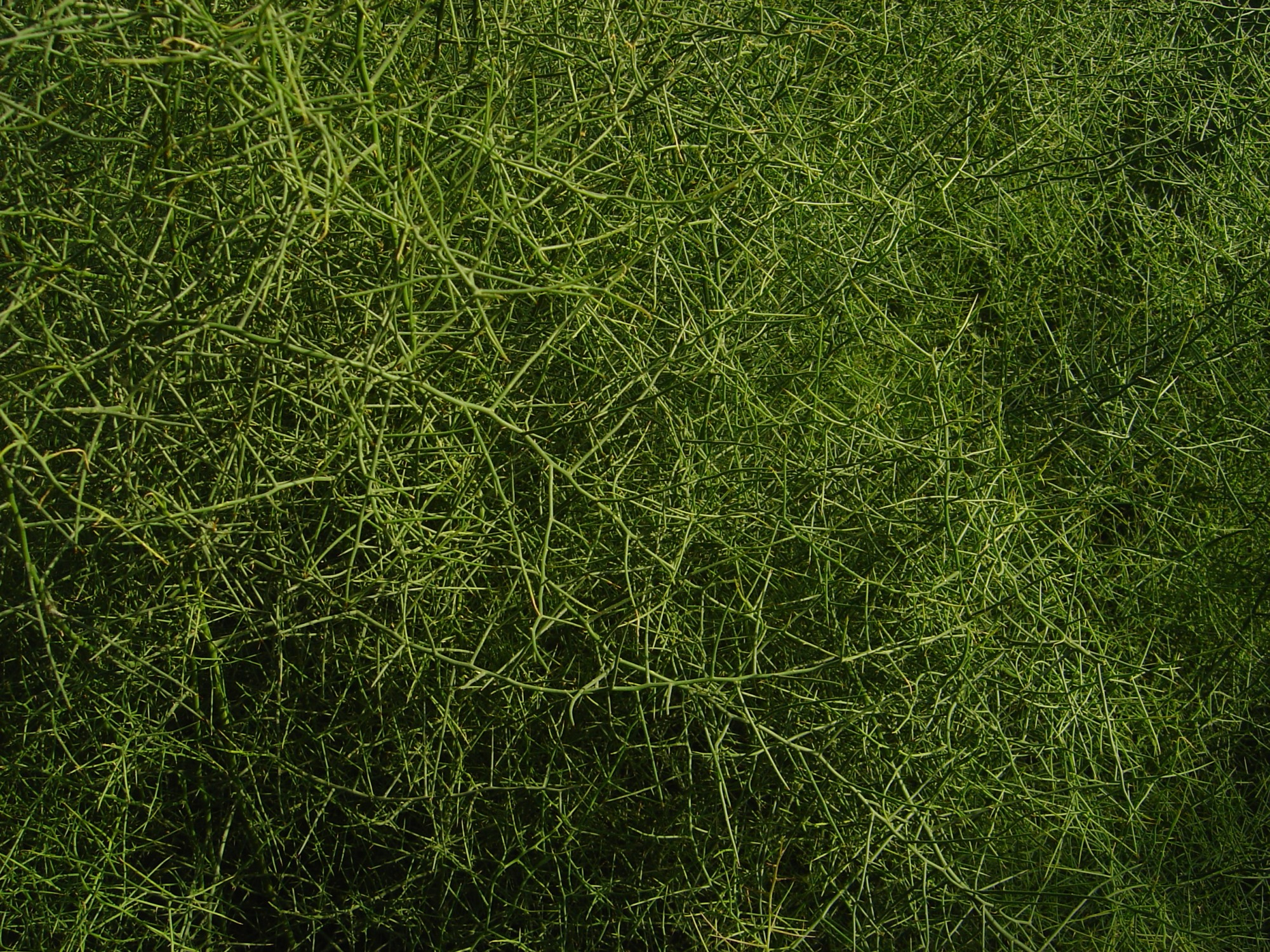 Image of a Koeberlinia spinosa